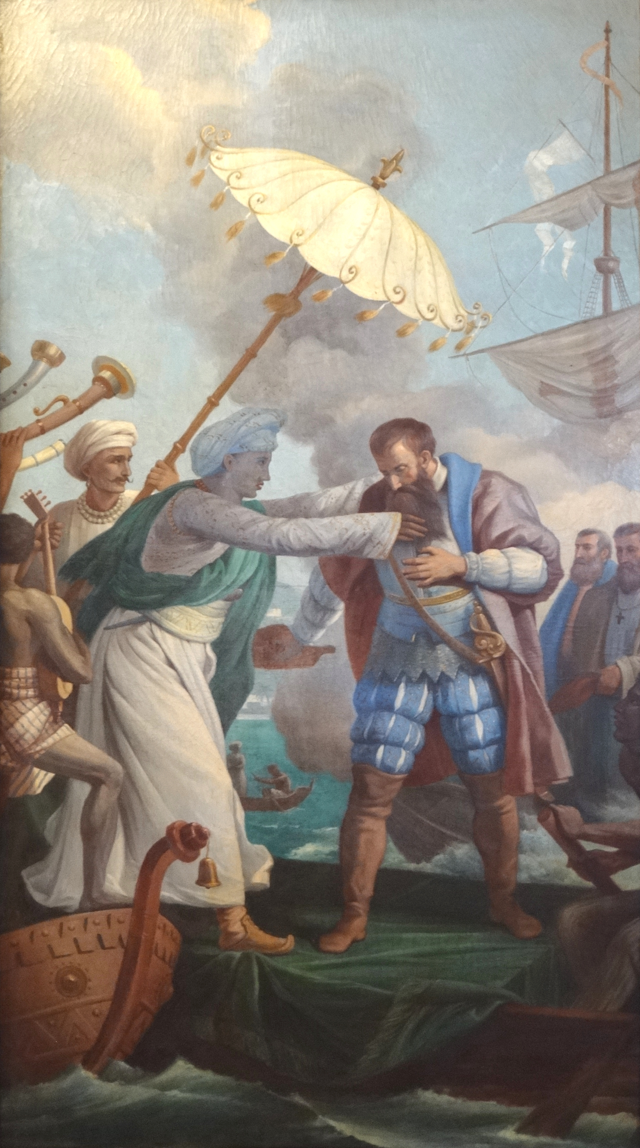 Panel of the roof of the main room of the Centro Cultural Português of Santos. The painting depicts "the meeting of the King to Melinde and Vasco da Gama", inspired by the Lusiads of Camoens.